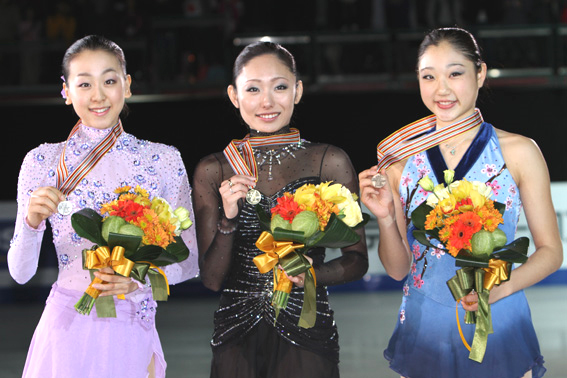 The ladies podium at the 2011 Four Continents Championships. From left: Mao Asada (2nd), Miki Ando (1st), Mirai Nagasu (3rd)